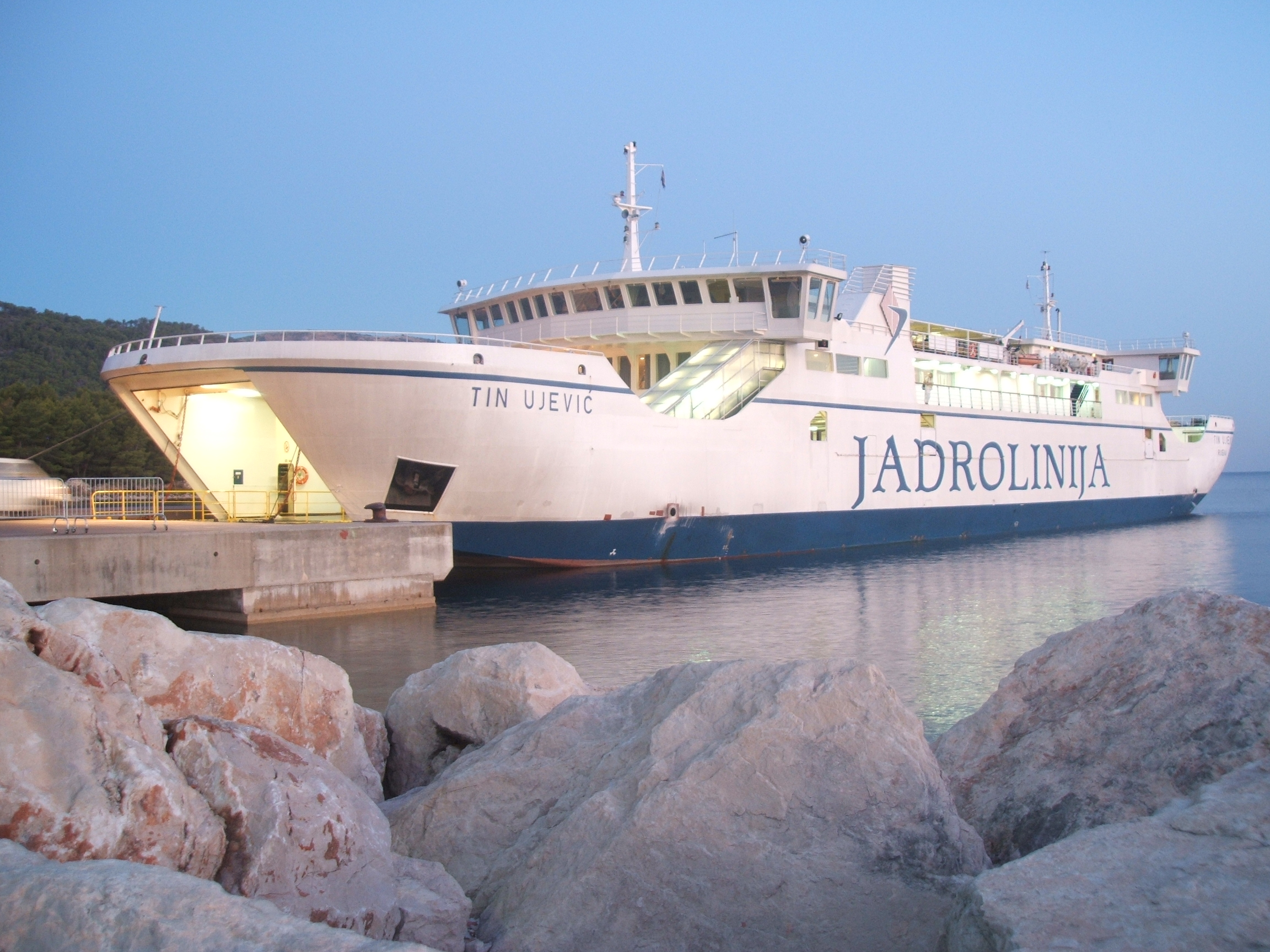 The ferry Tin Ujević in Stari Grad port on the island of Hvar.